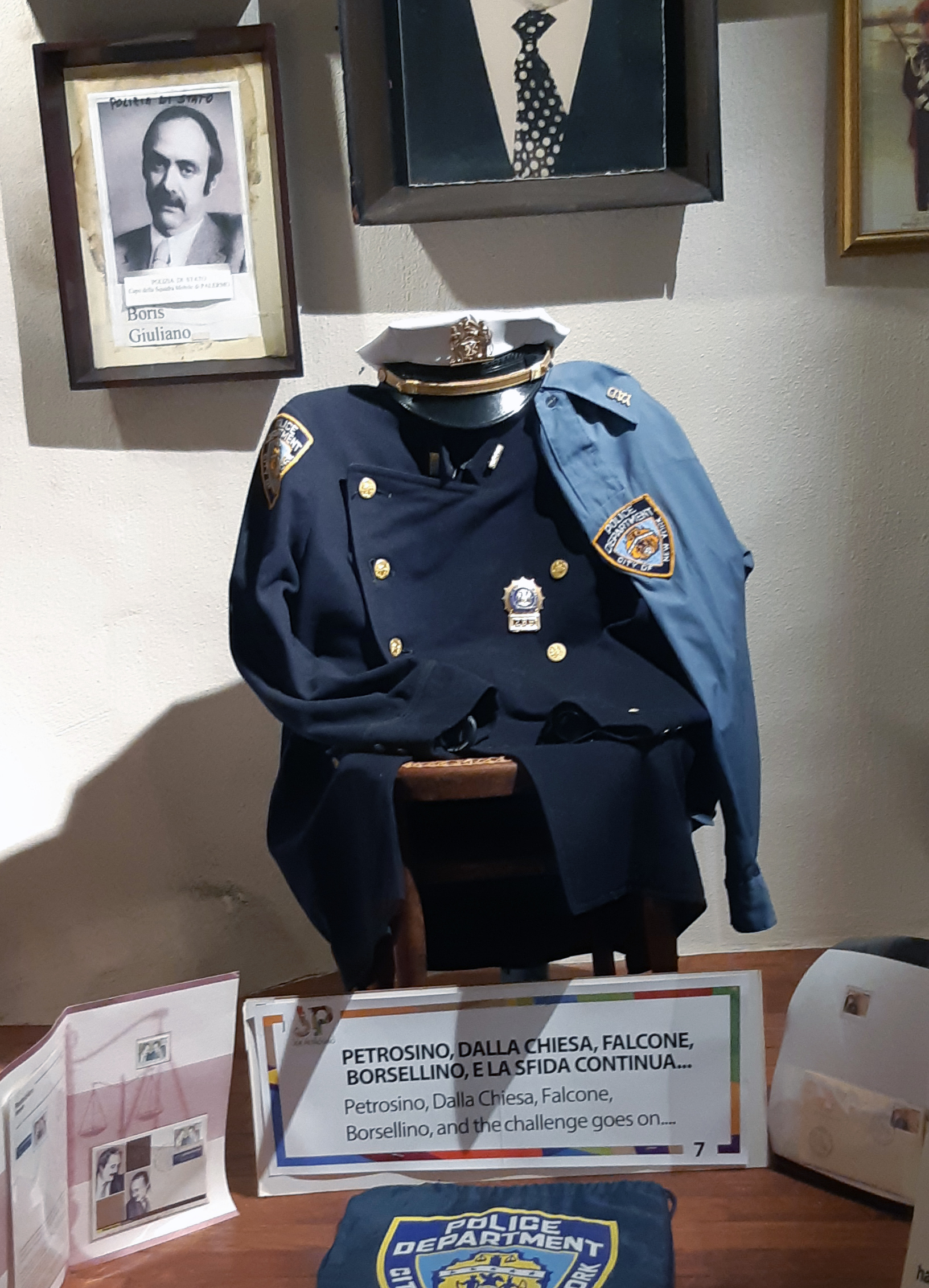 Joe Petrosino's uniform (Picture taken at Joe Petrosino's House & Museum, in Padula)